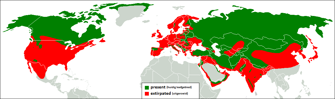 Habitat of the gray wolf (Canis lupus). Global situation summer 2014. Single wolves not included.